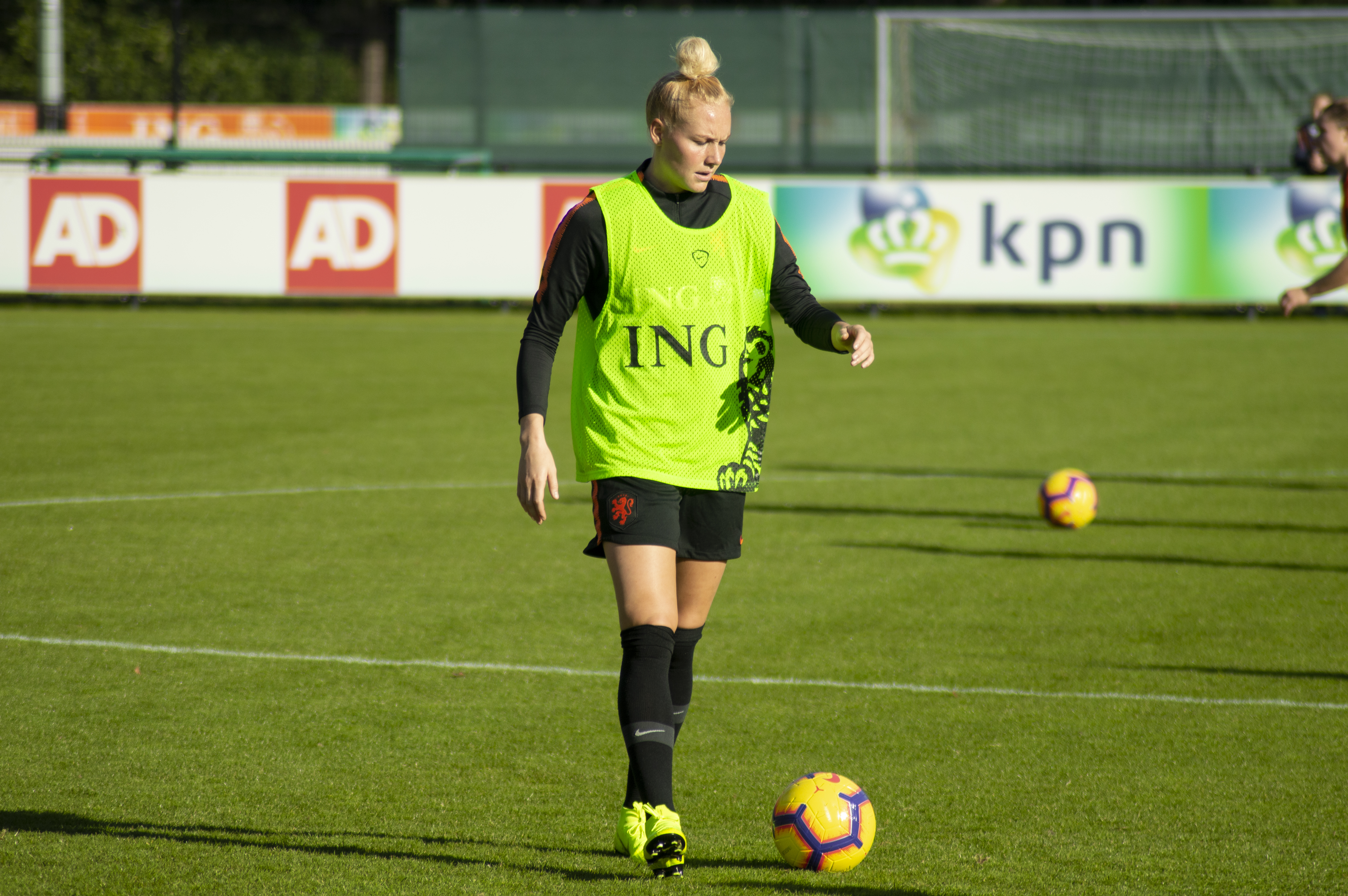 Danique Kerkdijk training with the Netherlands women's national football team on 6 November 2018.